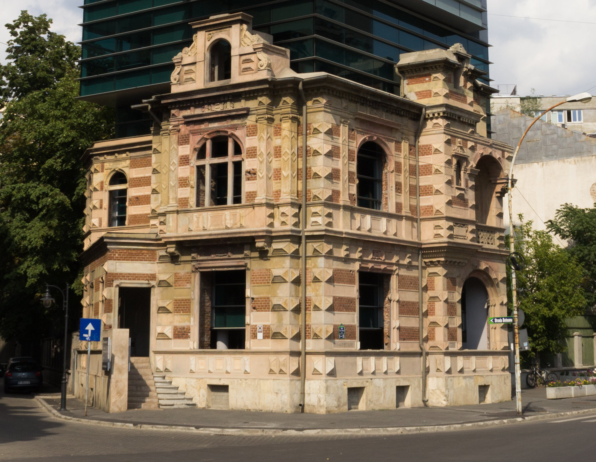 House, Headquarters of the Union of Romanian Architects. Former Austro-Hungarian Legation. Headquarters of a State Security directorate during the communism period, it was destroyed during the December 1989 Revolution. The 2003-2007 restoration (architects Dan Marin and Zeno Bogdănescu) preserves the ruin as a memorial to the Revolution, introducing a contemporary independent volume. Cropped from the original uploaded image to reduce the modern building to de minimis to avoid violating its copyright.